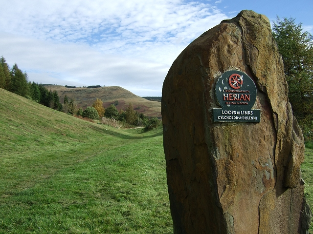 Penpych Woodland Park The Objective 1 funded Loops & Links network of trails have been designed for those that want to see the most that this culturally and environmentally rich area has to offer. The trails have been designed to be accessed quickly and easily from one of the major transport hubs, such as a train station, and are either circular in fashion, or finish at another station, from where it is only a short ride back to the start.